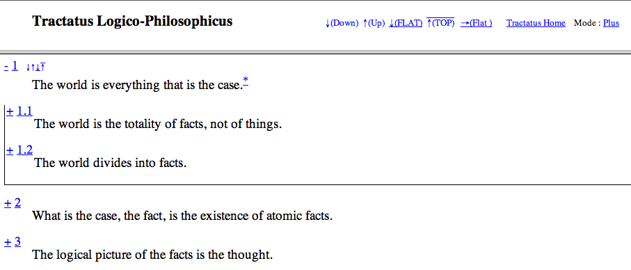 Tractatus Stretchtext, by Satoh Sinh